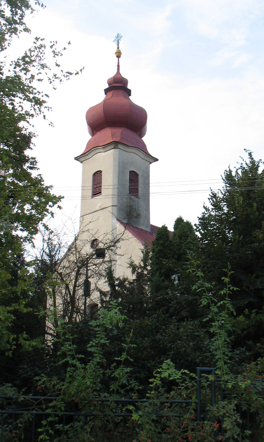 church in Čápor, Sk